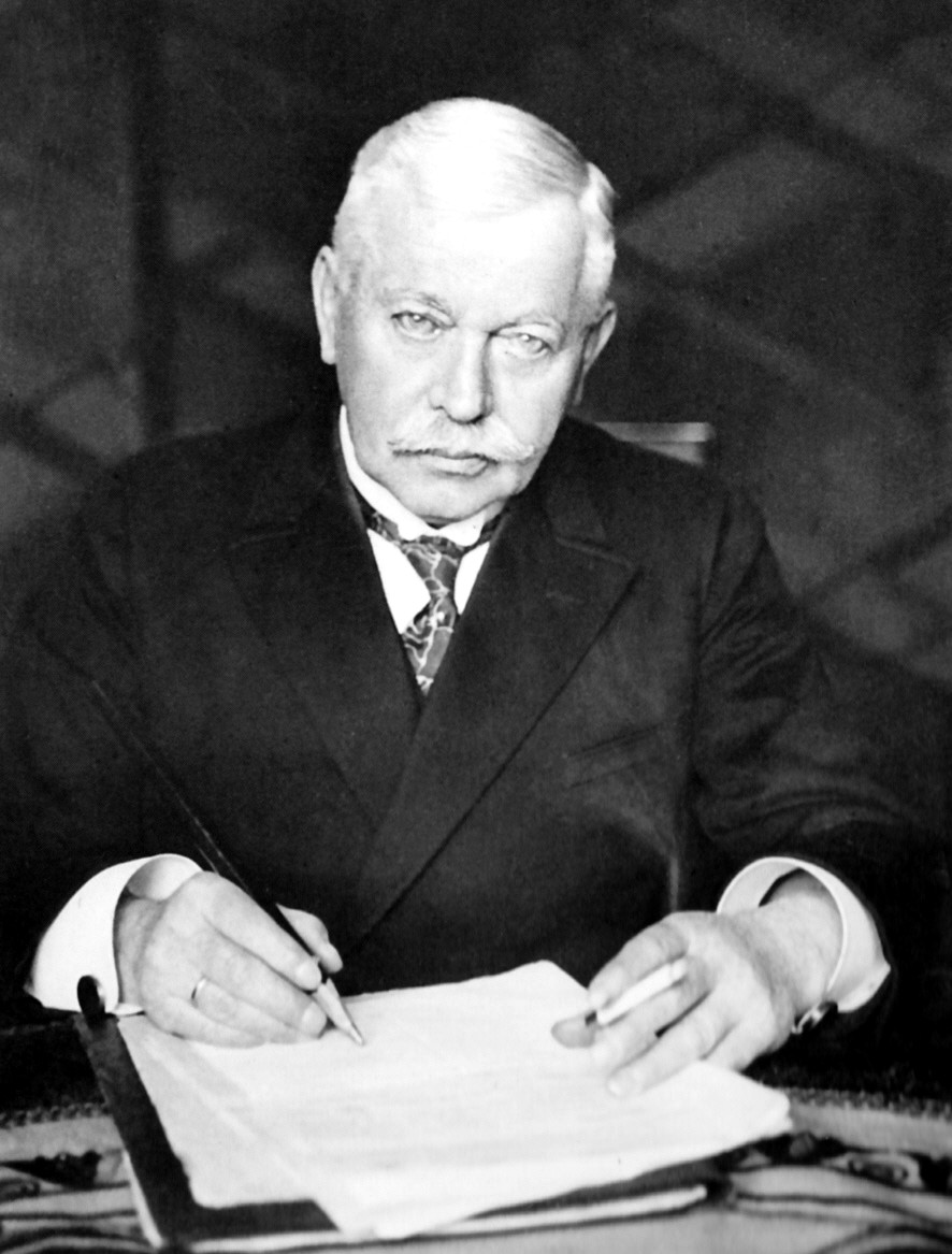 Eduard Friedrich Ewers (1862-1936), senator of Lübeck